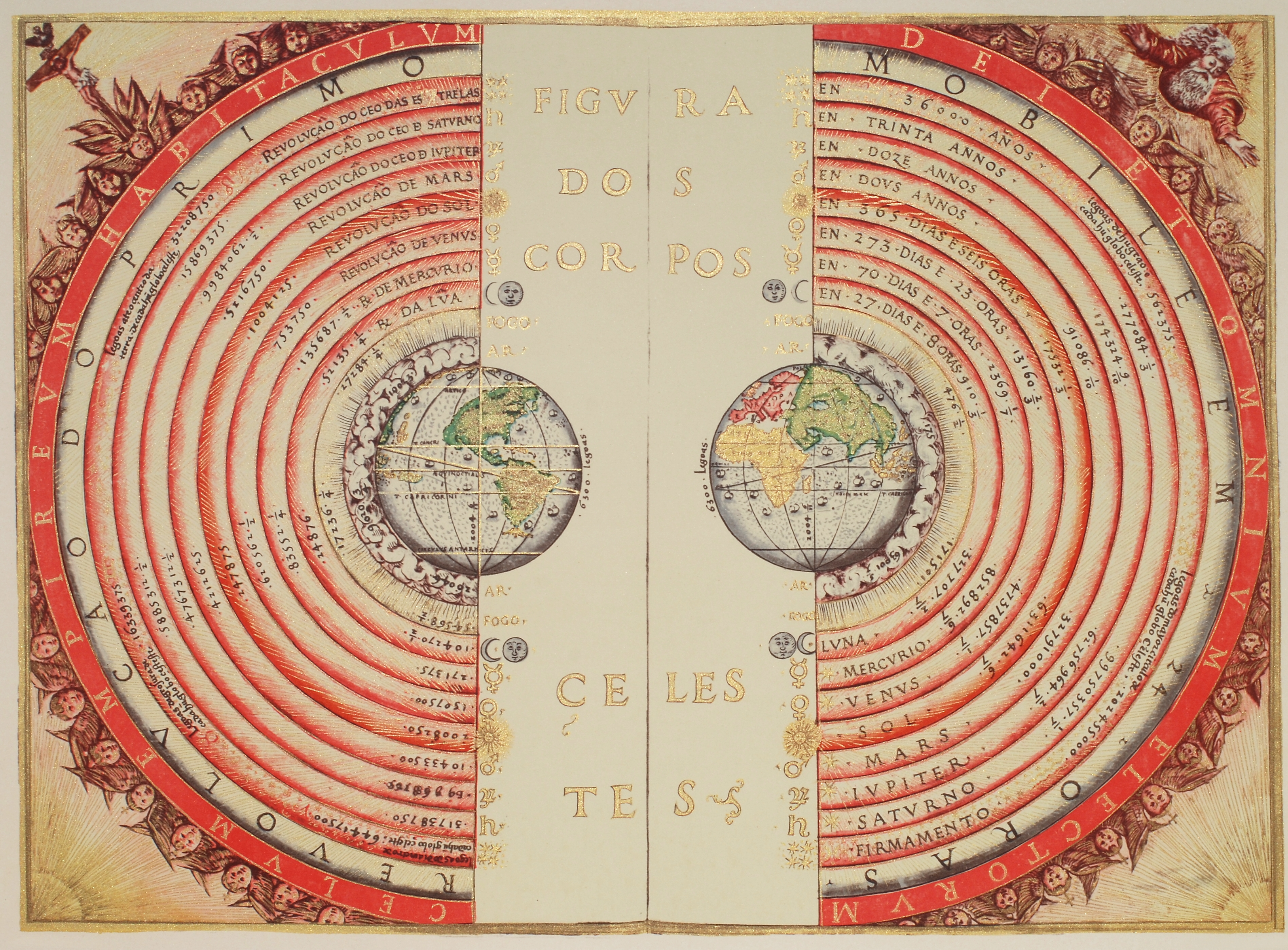 Figure of the heavenly bodies - Illuminated illustration of the Ptolemaic geocentric conception of the Universe by Portuguese cosmographer and cartographer Bartolomeu Velho (?-1568). From his work Cosmographia, made in France, 1568 (Bibilotèque nationale de France, Paris). Notice the distances of the bodies to the centre of the Earth (left) and the times of revolution, in years (right). The outermost text says: "The heavenly empire, the dwelling of God and of all of the elect"